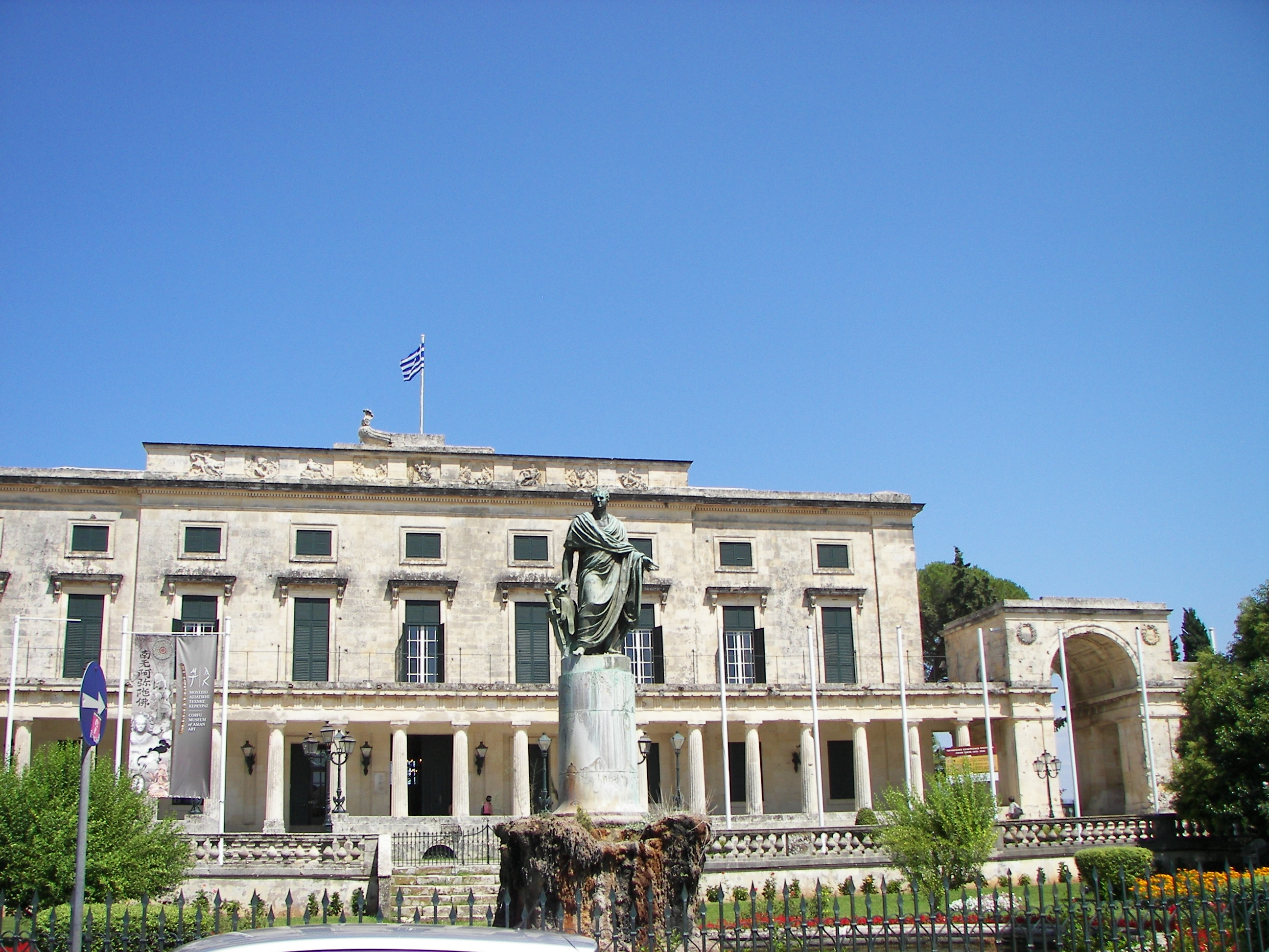 I am the author. Dr.K. 15:34, 6 September 2006 (UTC)